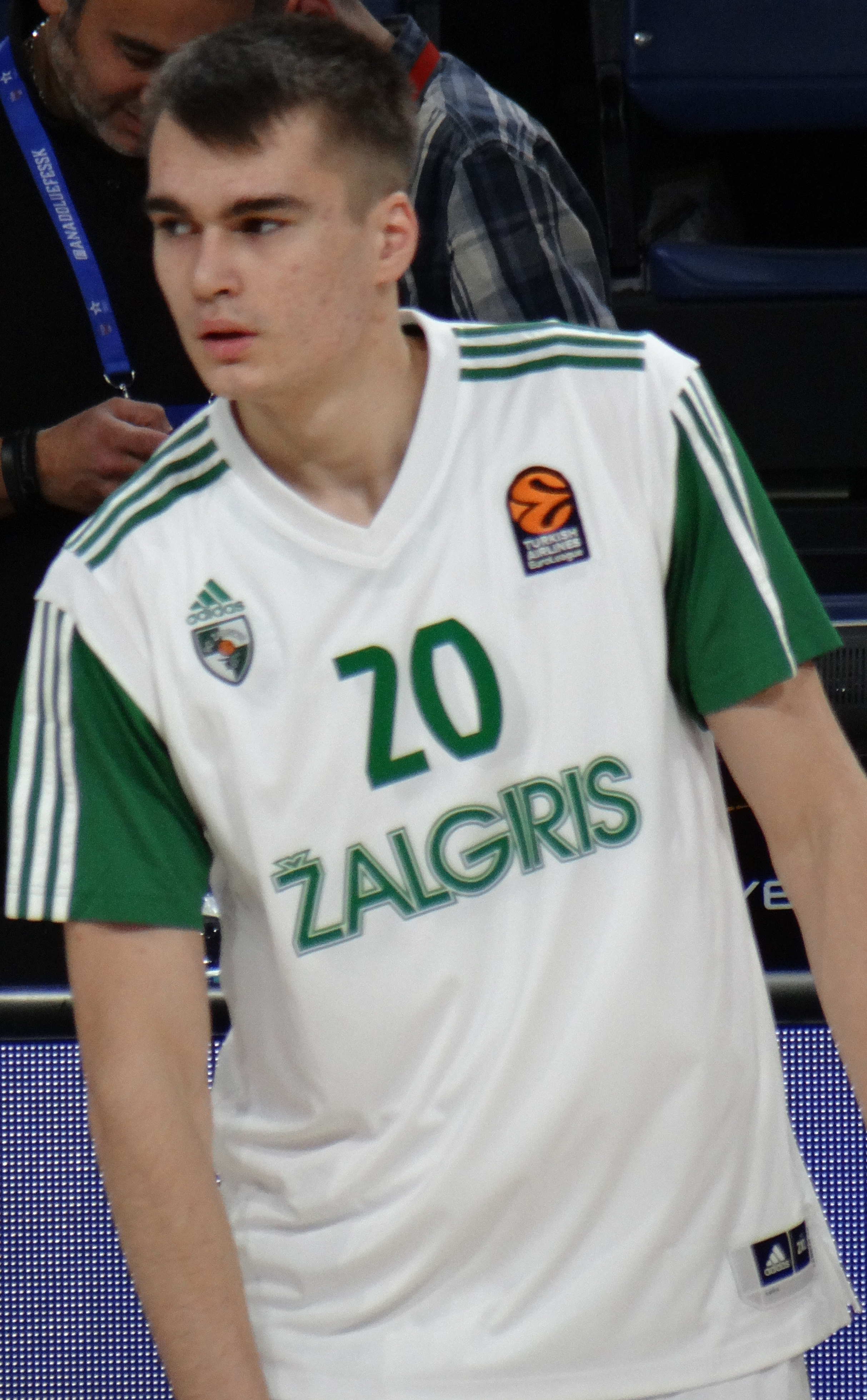 Gytis Masiulis 20 BC Žalgiris EuroLeague 20180223